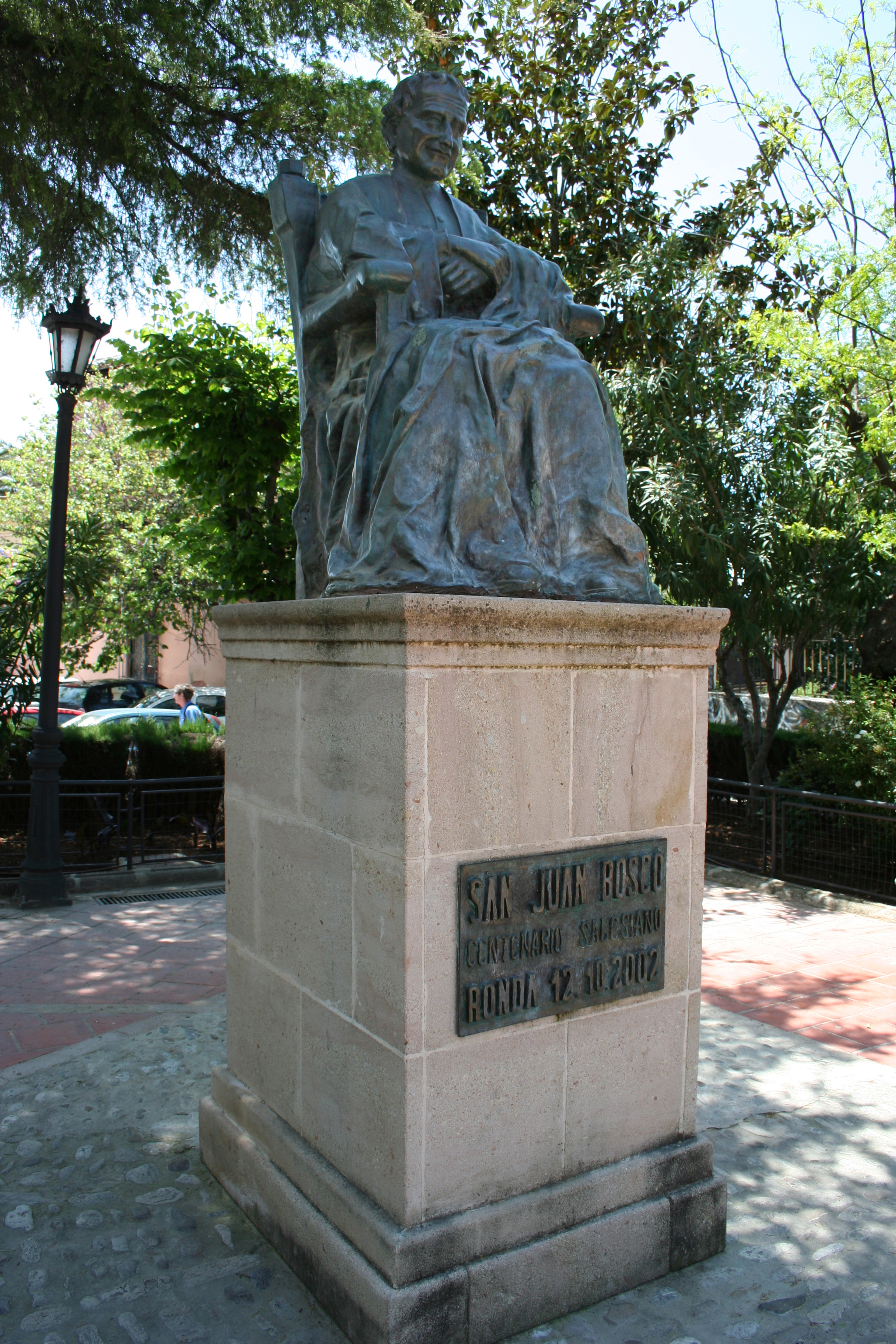 Statue of San Juan Bosco, Ronda, Spain.